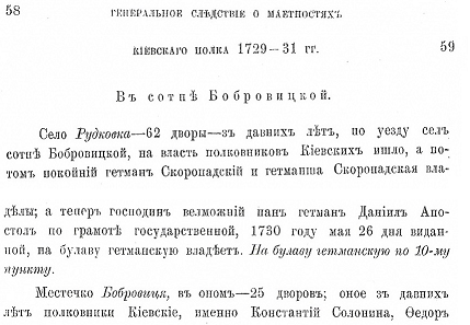 About Rud'kivka in 1730